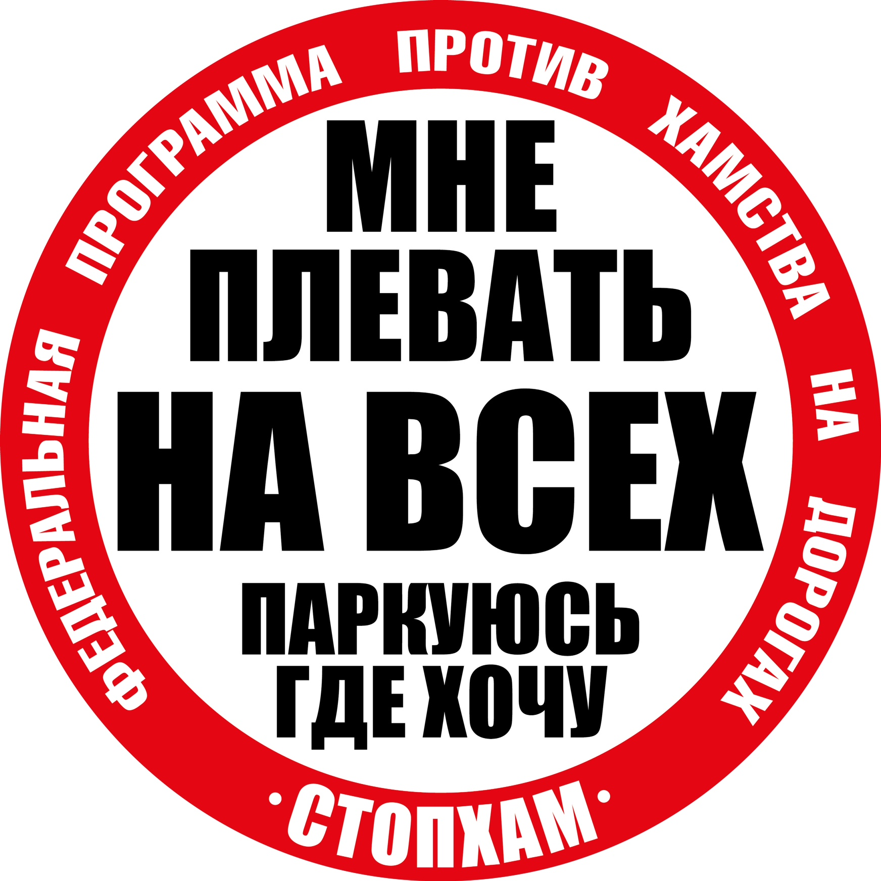 Sticker project STOP HAM!, Activists youth movement of NASHI. Glue on car window, whose car breaks the rules of the road. The inscription reads: I do not care at all, put the car where I want.